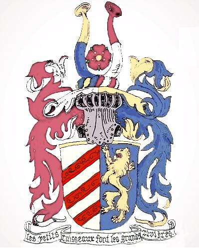 Coat of arms, Family Ramdohr